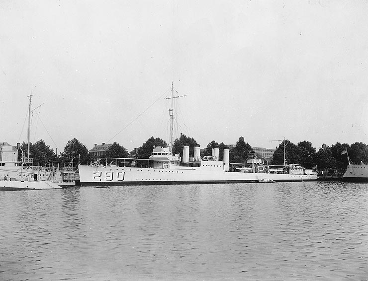 The U.S. Navy destroyer USS Dale (DD-290) at the Philadelphia Naval Shipyard, Pennsylvania (USA), on 11 June 1926, during the National Sesquicentennial exhibit there. Ships at left are the training ship USS Cheyenne (IX-4), inboard, and the submarine USS S-12 (SS-117). The stern of the protected cruiser USS Olympia (C-6) is visible at right.